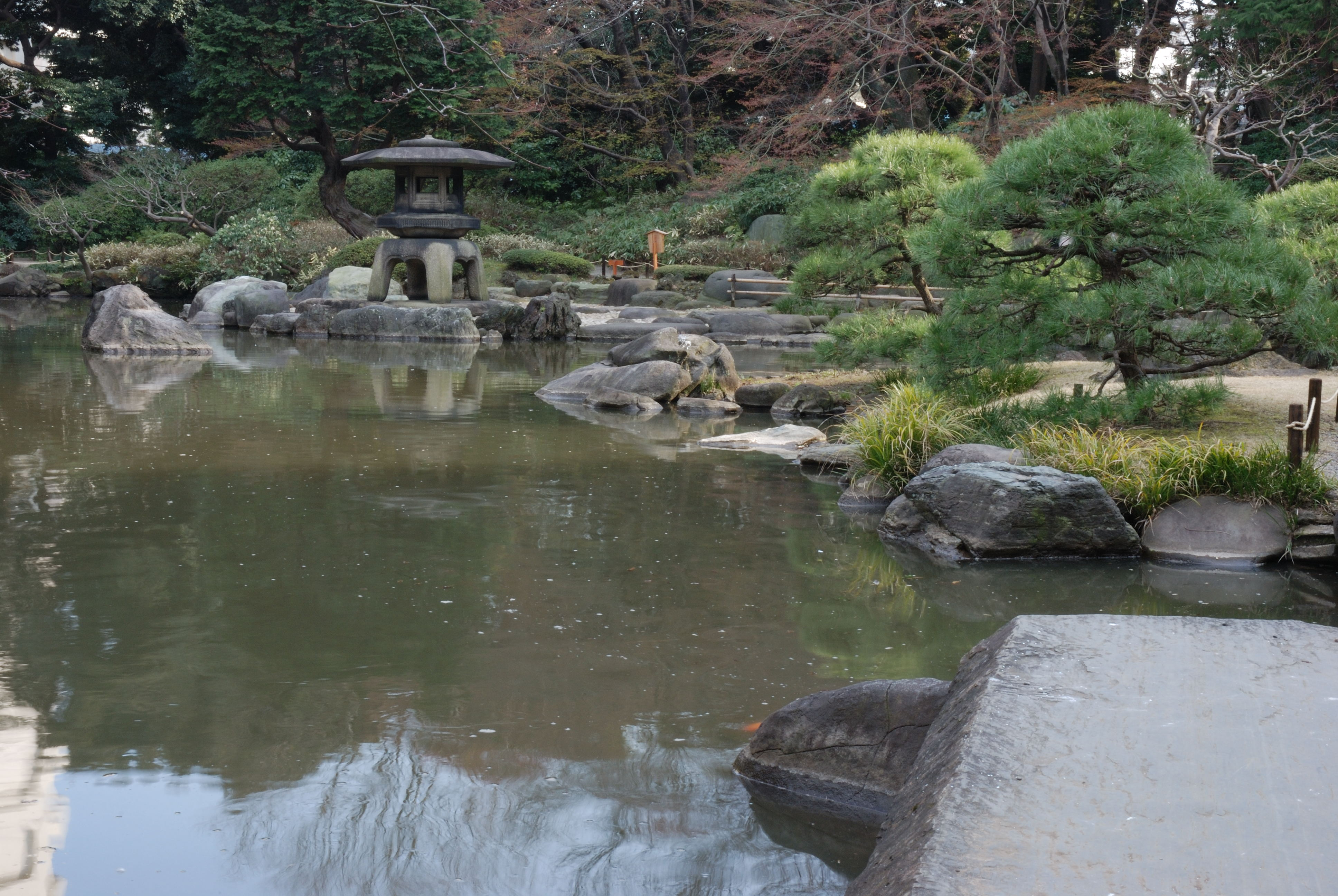 Shinji-ike pond at Kyu-Furukawa Gardens